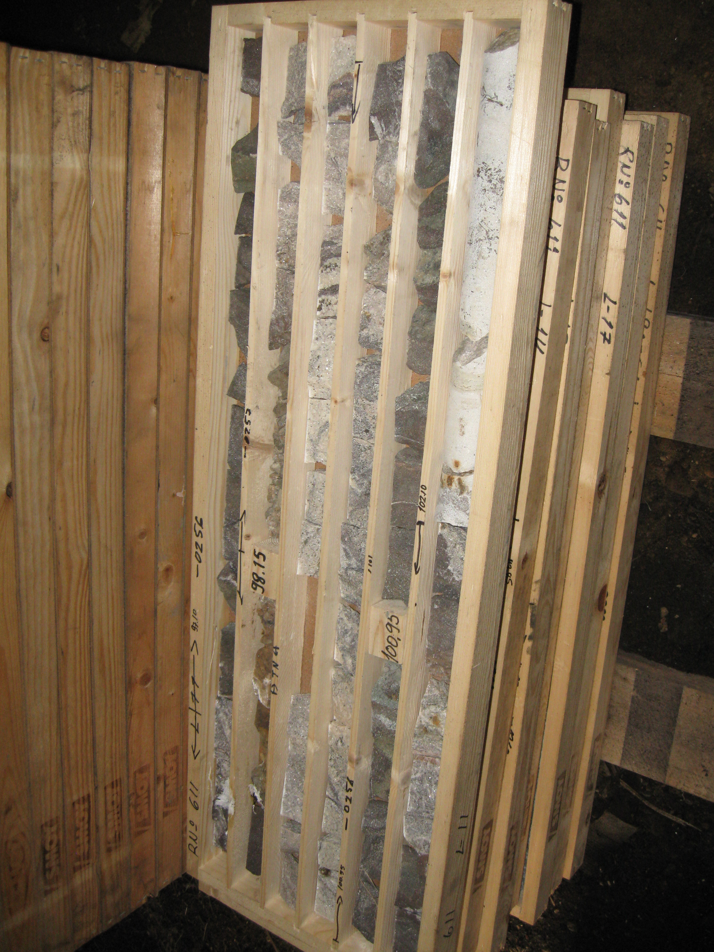 Mineral samples stored in the seventies at the Sokli pilot plant in Tulppio, Savukoski, Finland.